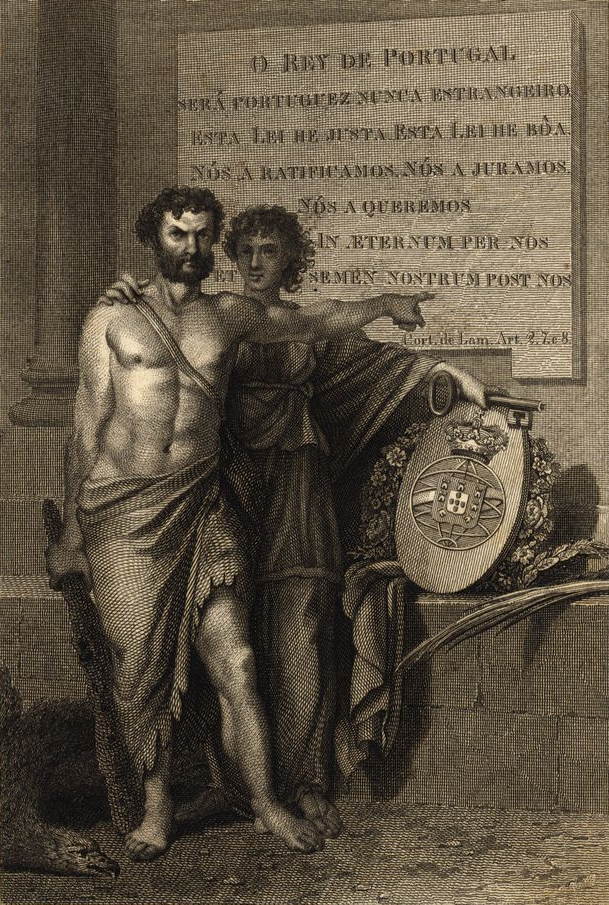 Allegory of the Cortes of Lamego, 1143 (1818), by Domingos Sequeira (sculpted by G.F. de Queiroz).